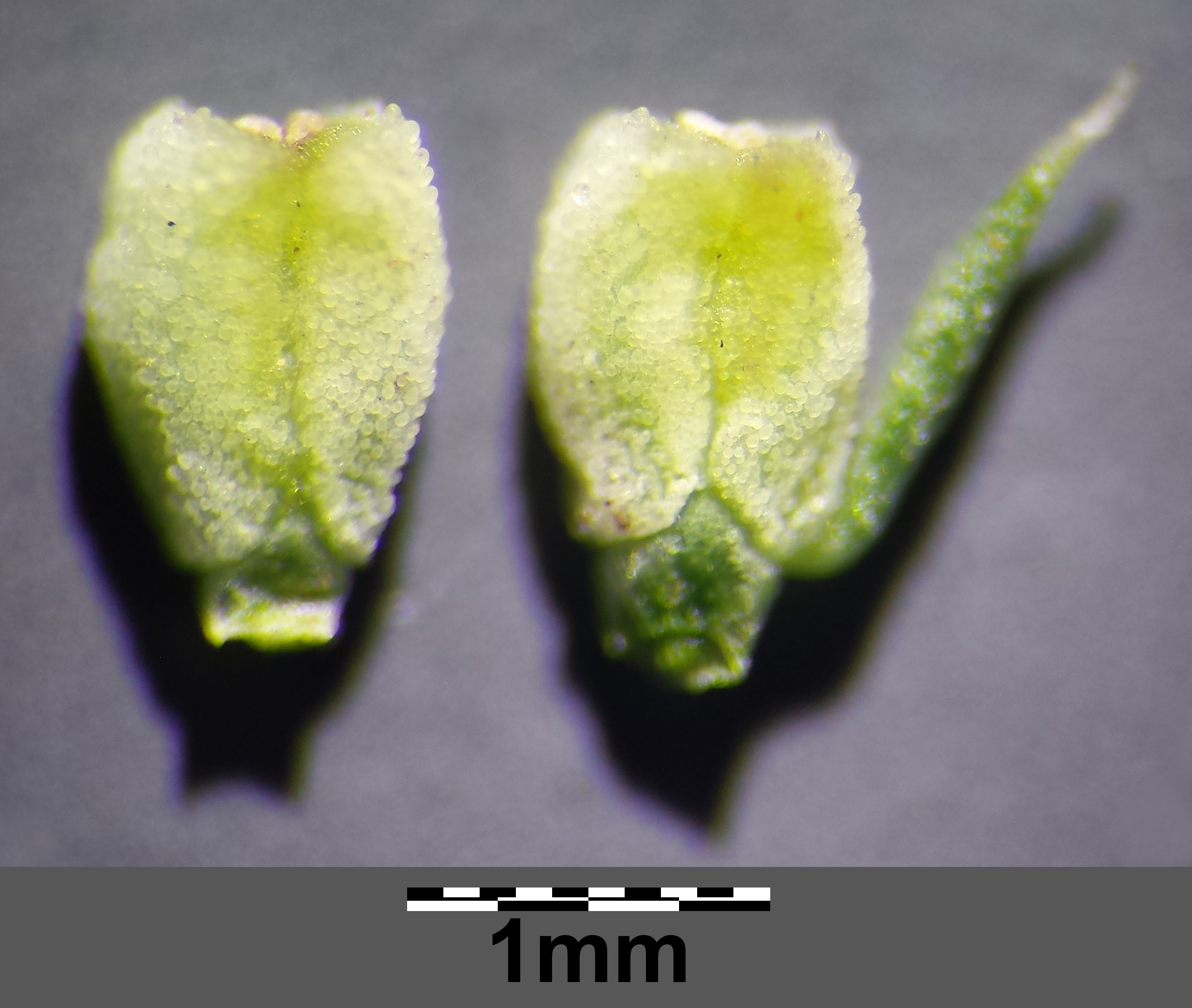 Fruits Taxonym: Asperula cynanchica (ss Fischer et al. EfÖLS 2008 ISBN 978-3-85474-187-9) Location: Kleiner Wagram near Gerasdorf, district Wien-Umgebung, Lower Austria - ca. 170 m a.s.l. Habitat: semi dry grassland